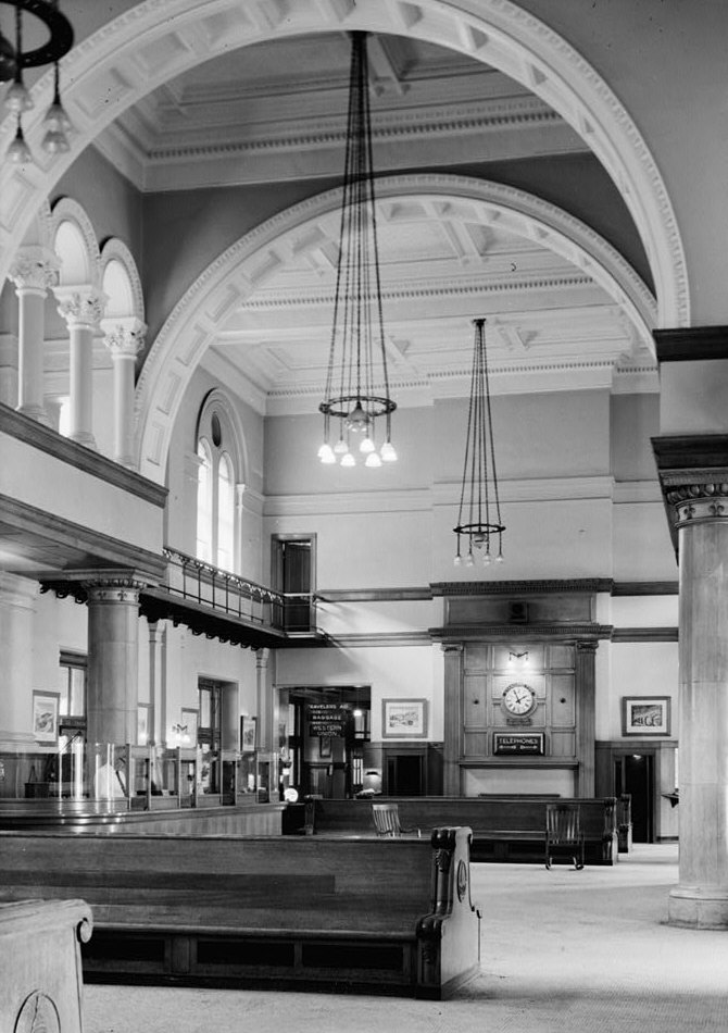 Interior view of Mount Royal Station in Baltimore, Maryland. Mt. Royal Station was built in 1896 and served the Baltimore and Ohio Railroad until 1961. Image courtesy of the federal HABS—Historic American Buildings Survey of Maryland. Credits Cropped and uploaded by JGHowes